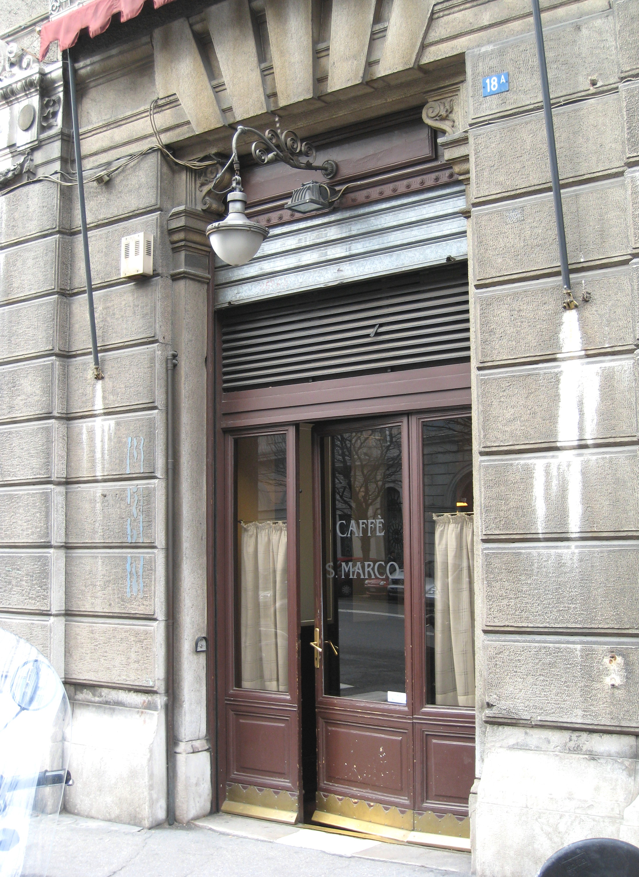 Old bracket lantern at the entrance of Caffè San Marco - Trieste - Italy